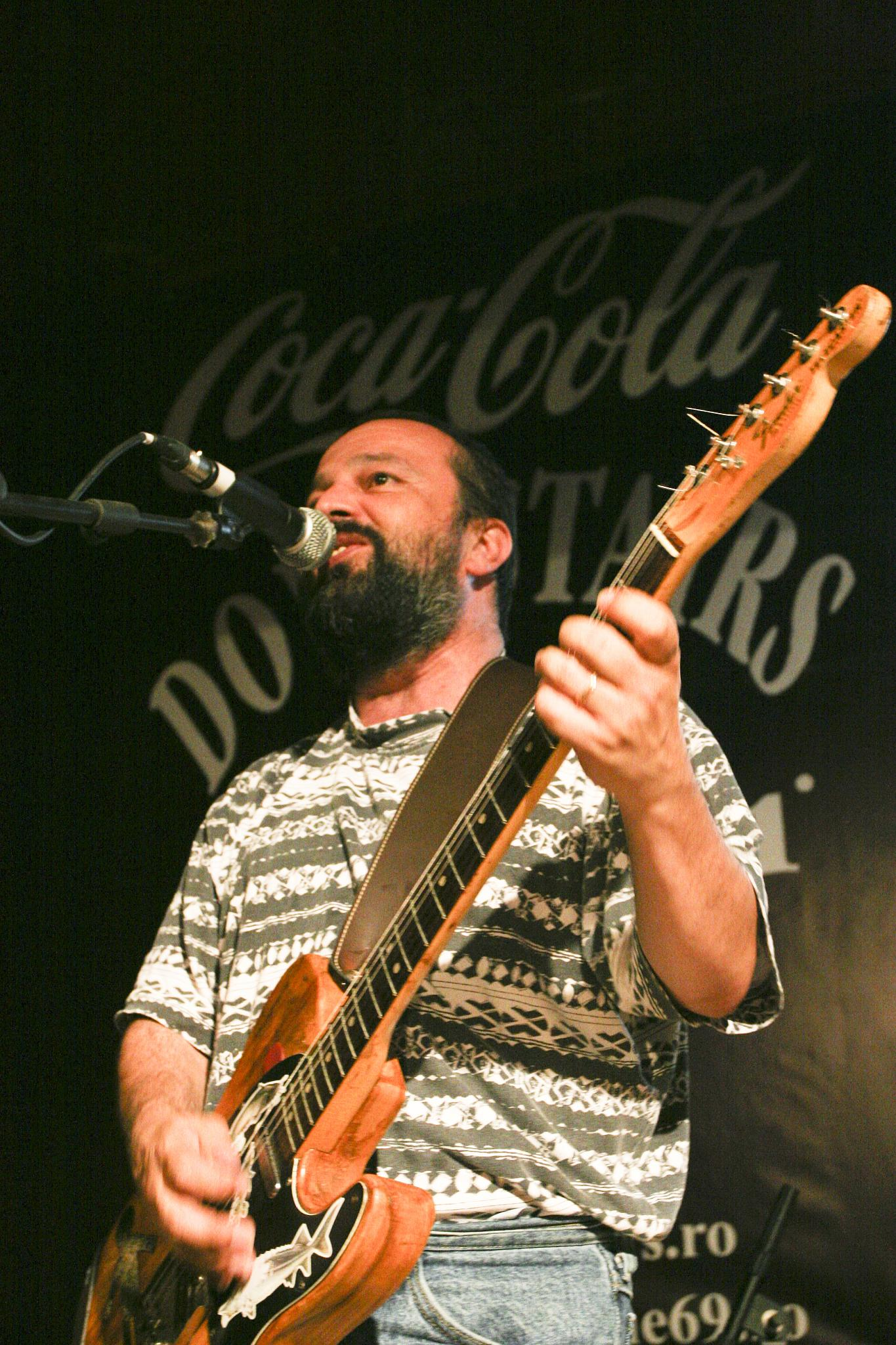 Concertul Nightlosers din Downstairs - 18 Iunie 2008